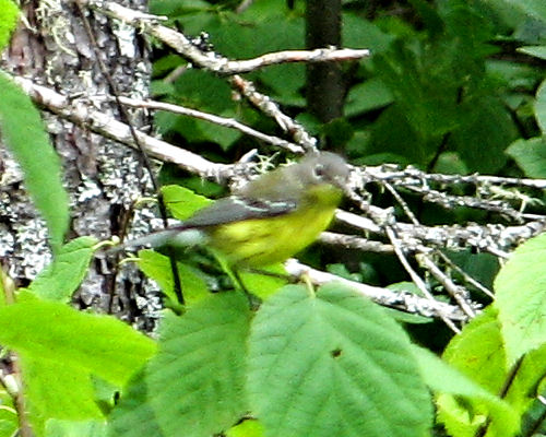 Canada Warbler (Wilsonia canadensis), Quetico Park, Ontario